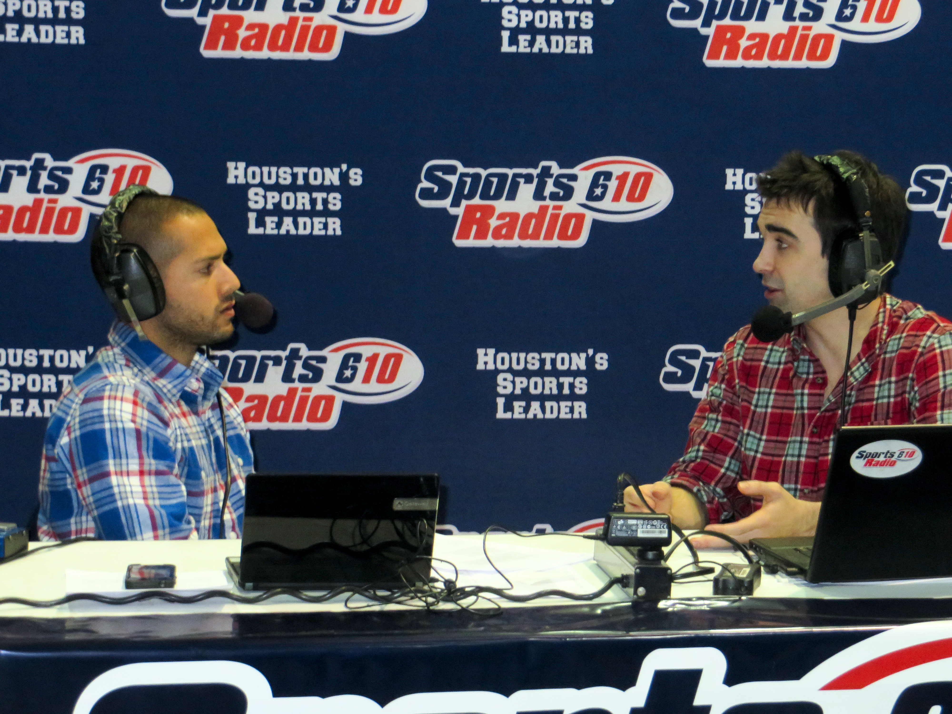 Shaun Bijani (left) and Paul Gallant airing live on Sports Radio 610 from a Tristar Productions sports collectors show in Houston.